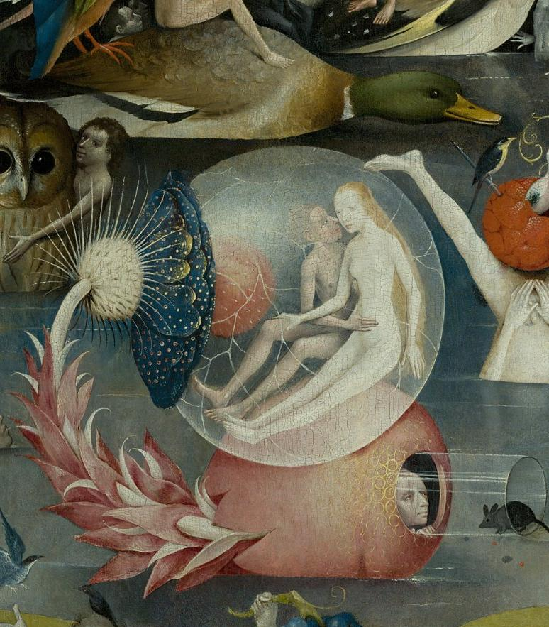 The Garden of Earthly Delights, central panel, detail.